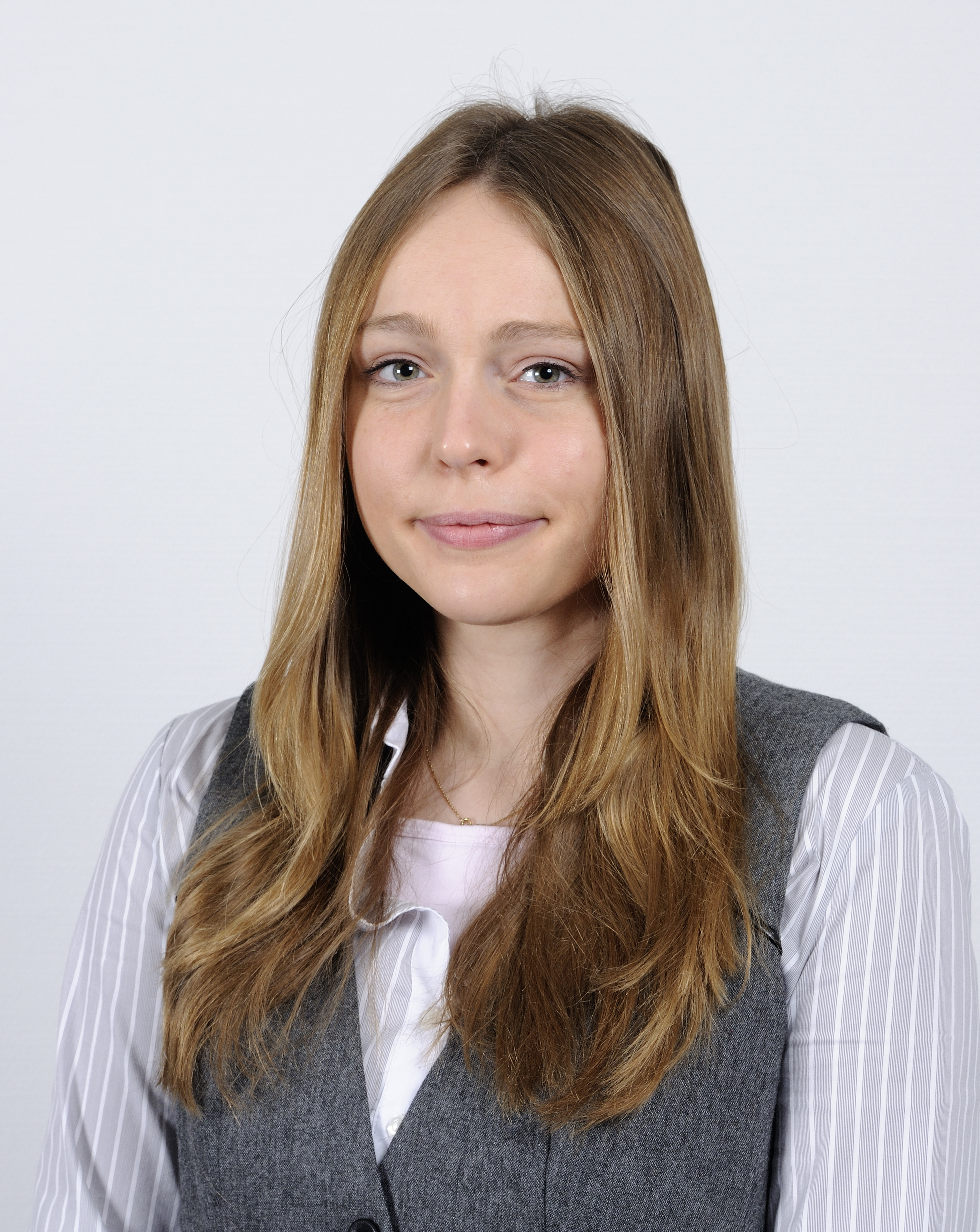 Member of the 6th Landtag of Saxony-Anhalt, Franziska Latta